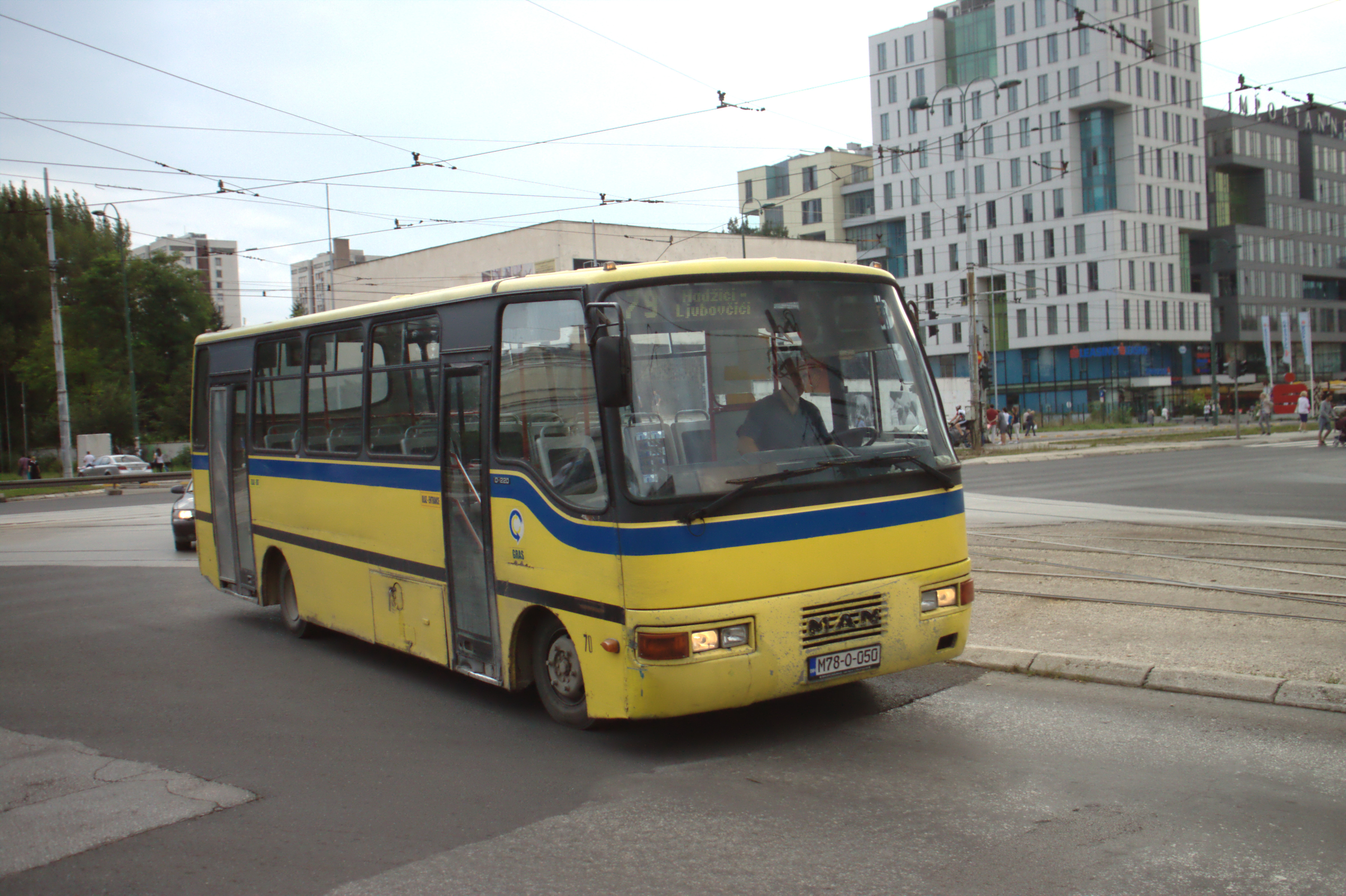 Public transport bus (GRAS) near Sarajevo train station, BiH